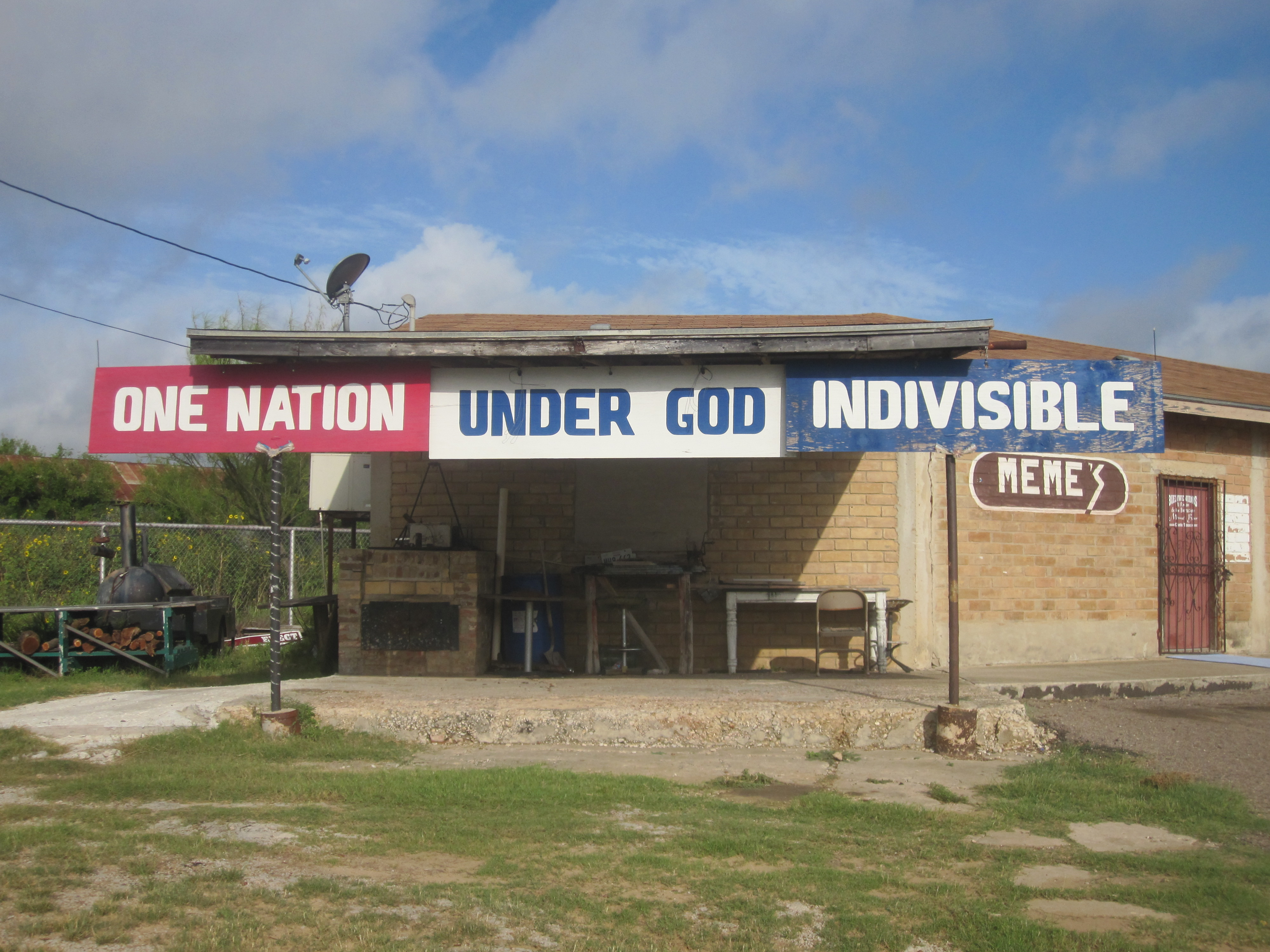 I took photo in Asherton, TX, with Canon camera.